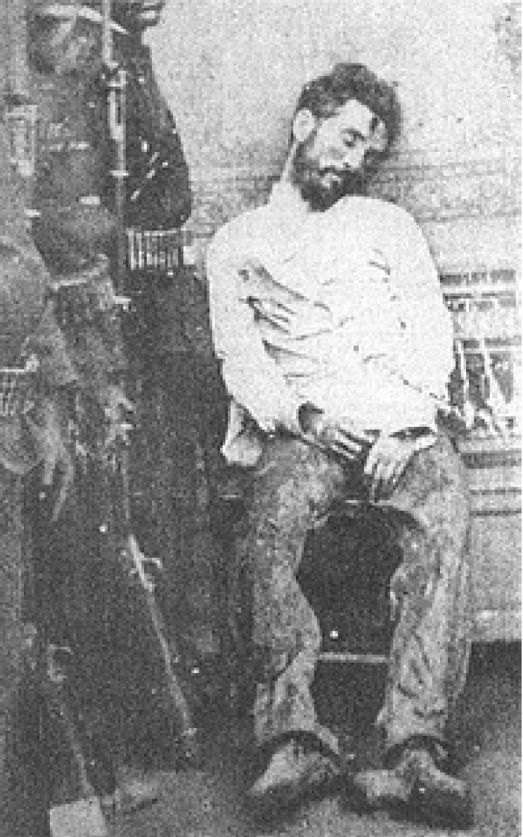 photograph of the body of Heraclio Bernal